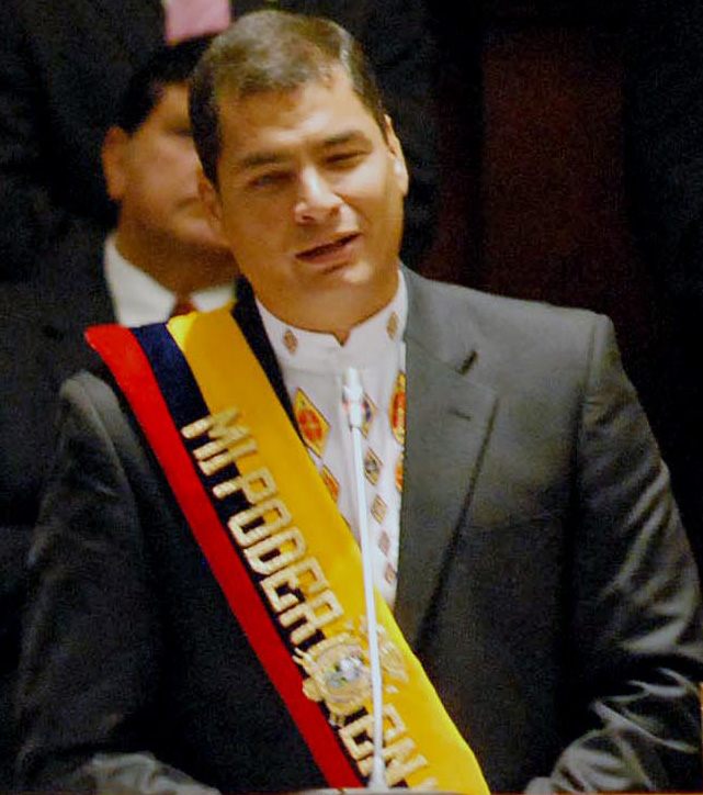 Rafael Correa during his inaugural speech as president of Ecuador